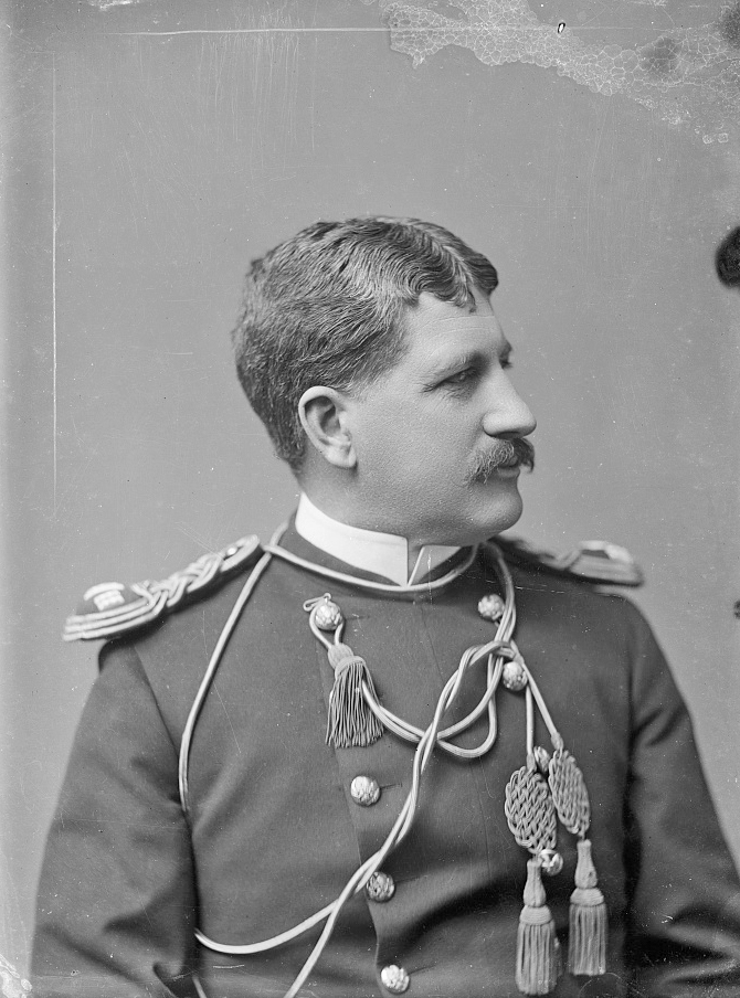 Nineteenth century photo of Winfield Scott Edgerly in his dress uniform.